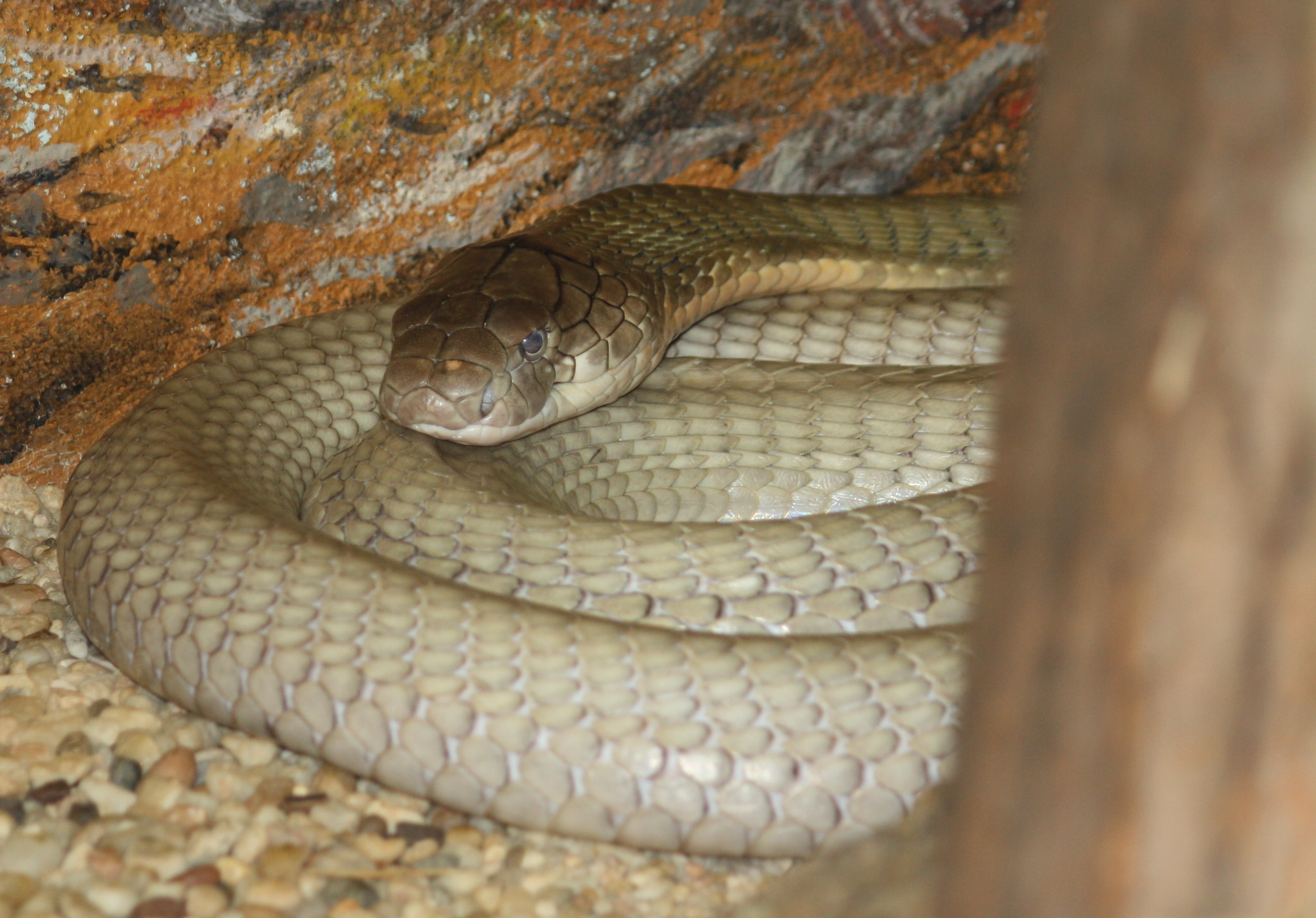 King Cobra Ophiophagus hannah at Cincinnati Zoo